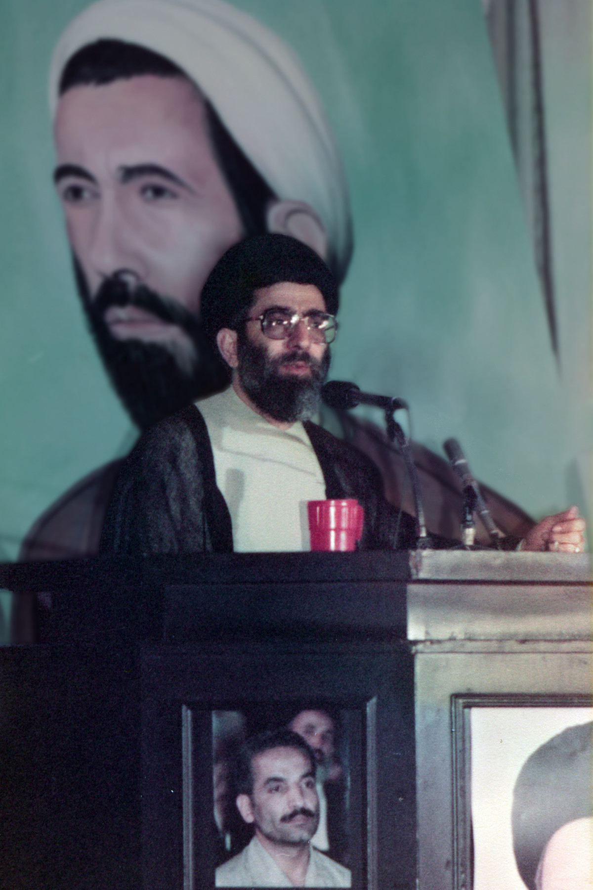 Ayatollah Khamenei's speech on the occasion of the second anniversary of the martyrs Rajaee and Bahonar